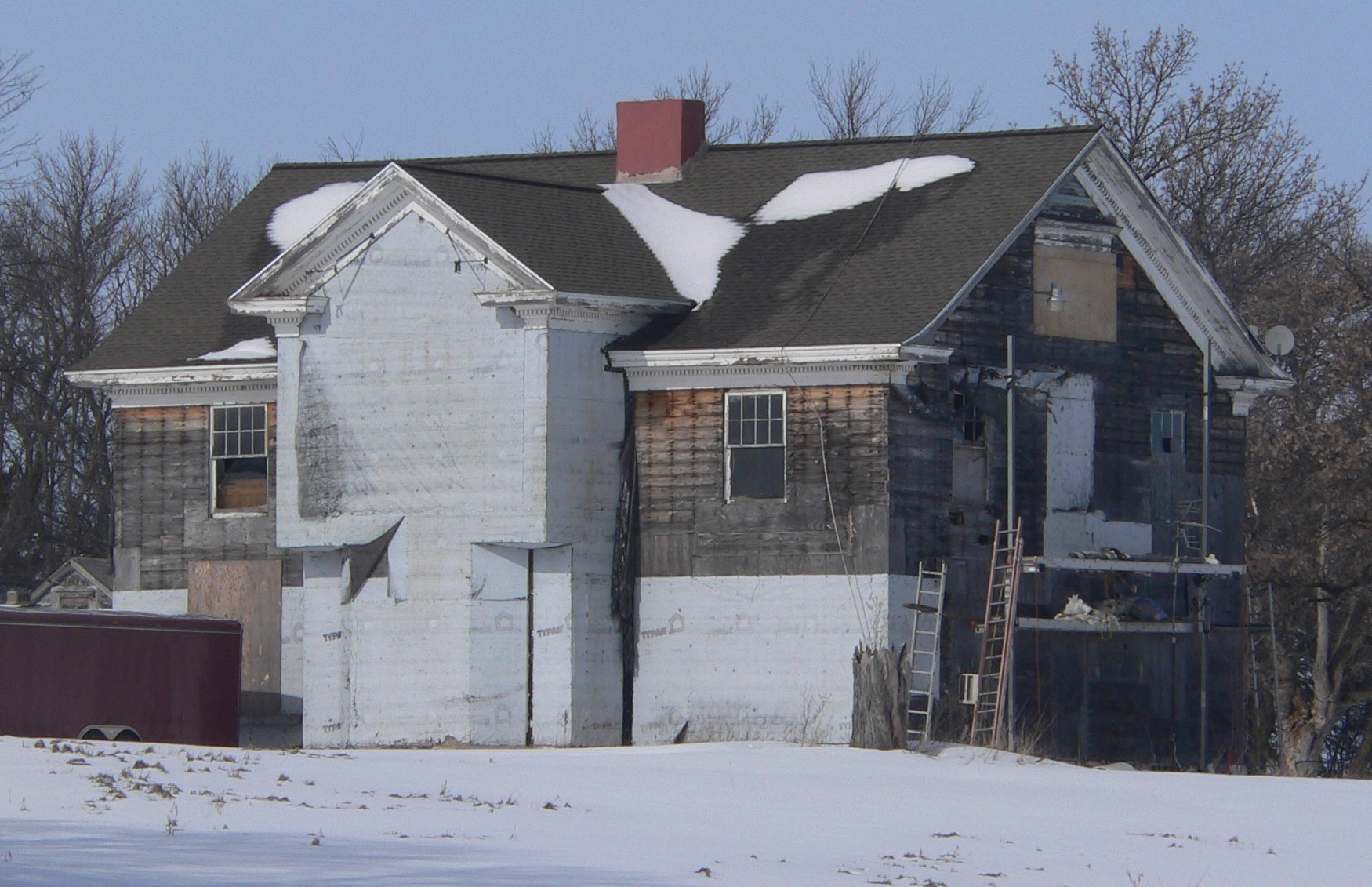 Aggergaard Manor, located at northwestern edge of Irene, South Dakota; seen from the southeast.